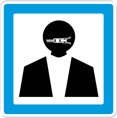 Pictogramme of disenfranchisement (danish: Umyndiggørelse), a visualization of one of the central concepts in the critical theory of danish sociologist Rasmus Willig.